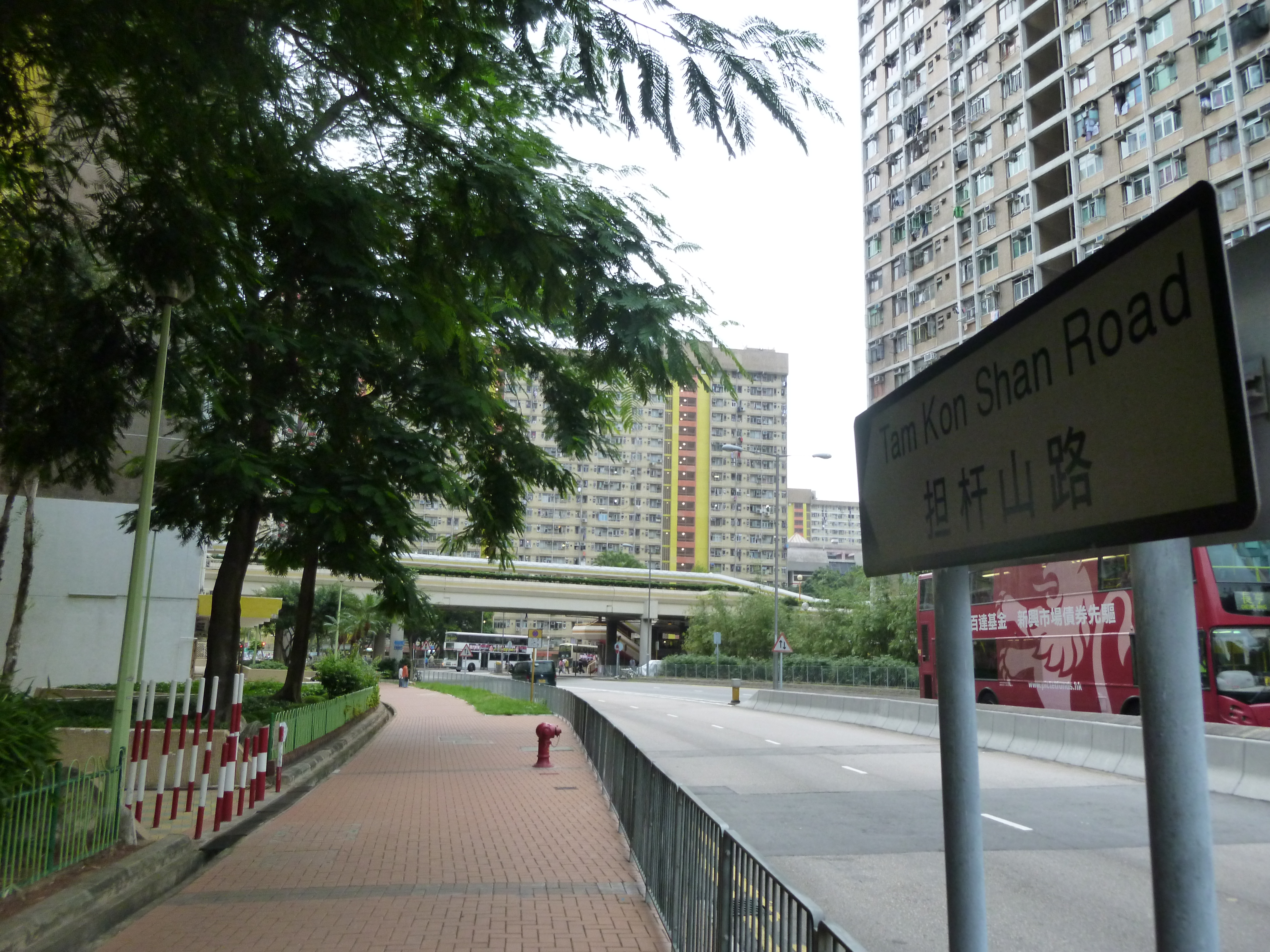 Tam Kon Shan Road (Tsing Yi, Hong Kong) 中文（香港）: 担杆山路 (香港葵青區青衣島)